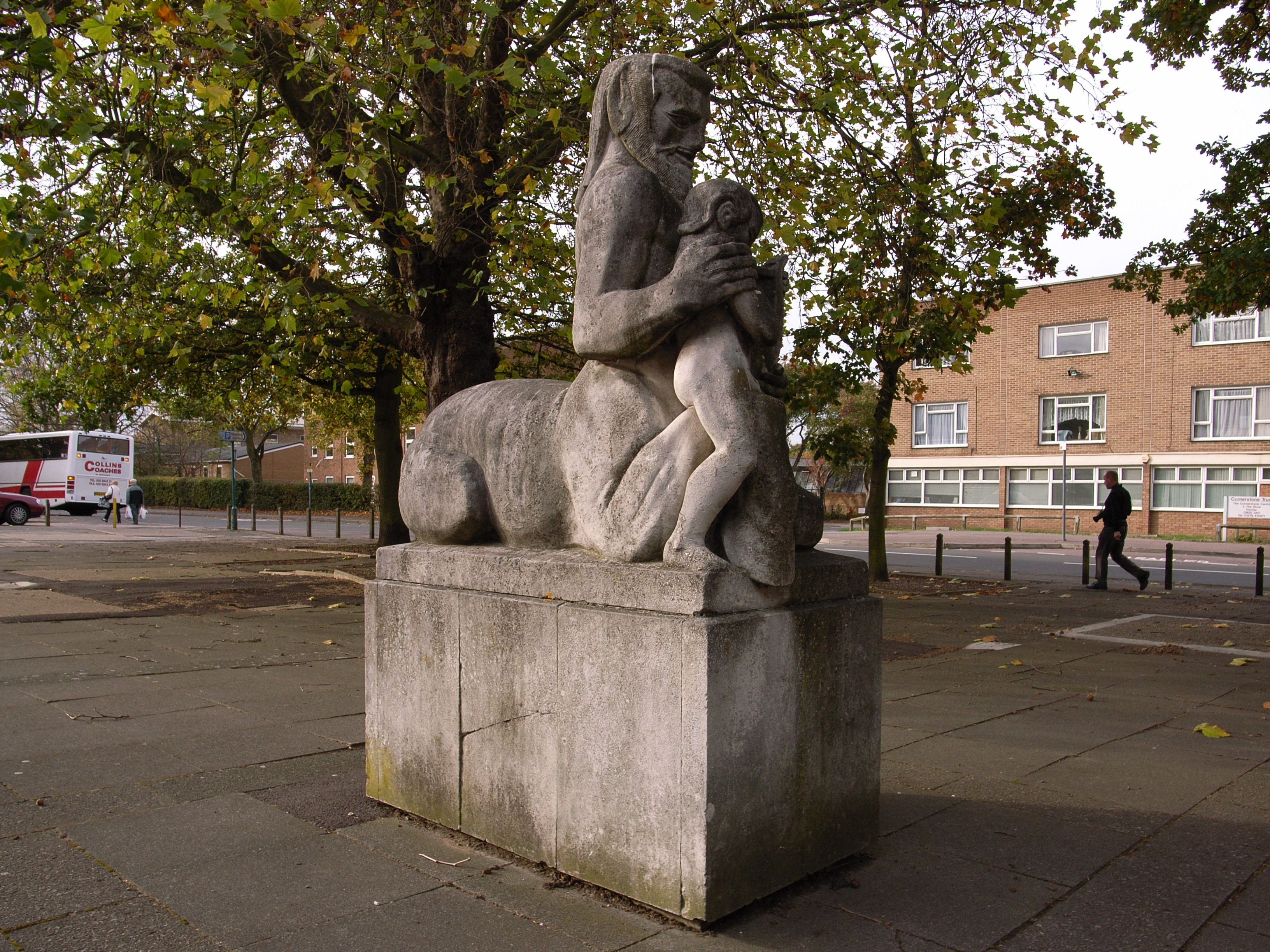 'Chiron' (1953) by Mary Spencer Watson, displayed opposite the Stow shopping centre in Harlow, Essex. Photo taken on a tour of Frederick Gibberd's work in London and Harlow with the 20th Century Society.